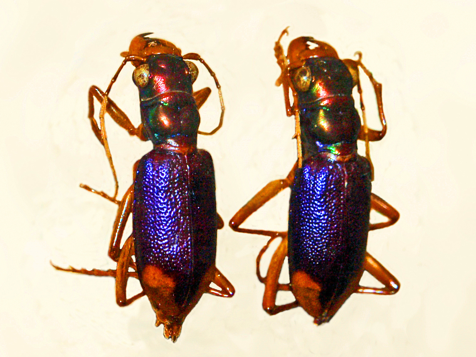 Tetracha martii from Bolivia. Male and female